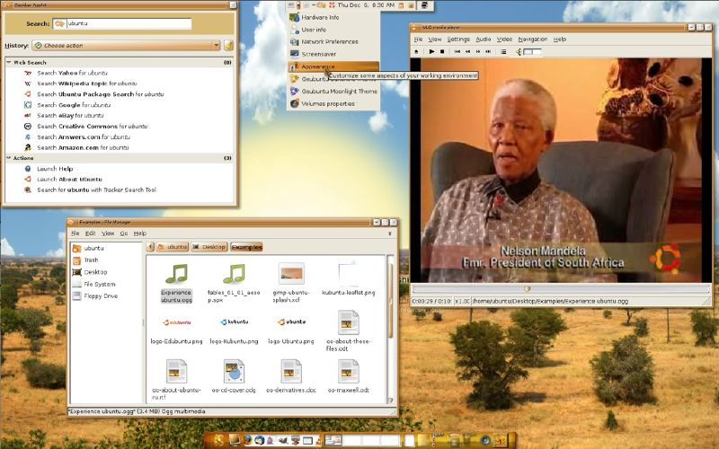 OpenGEU Luna Nuova with Sunshine theme during a normal use